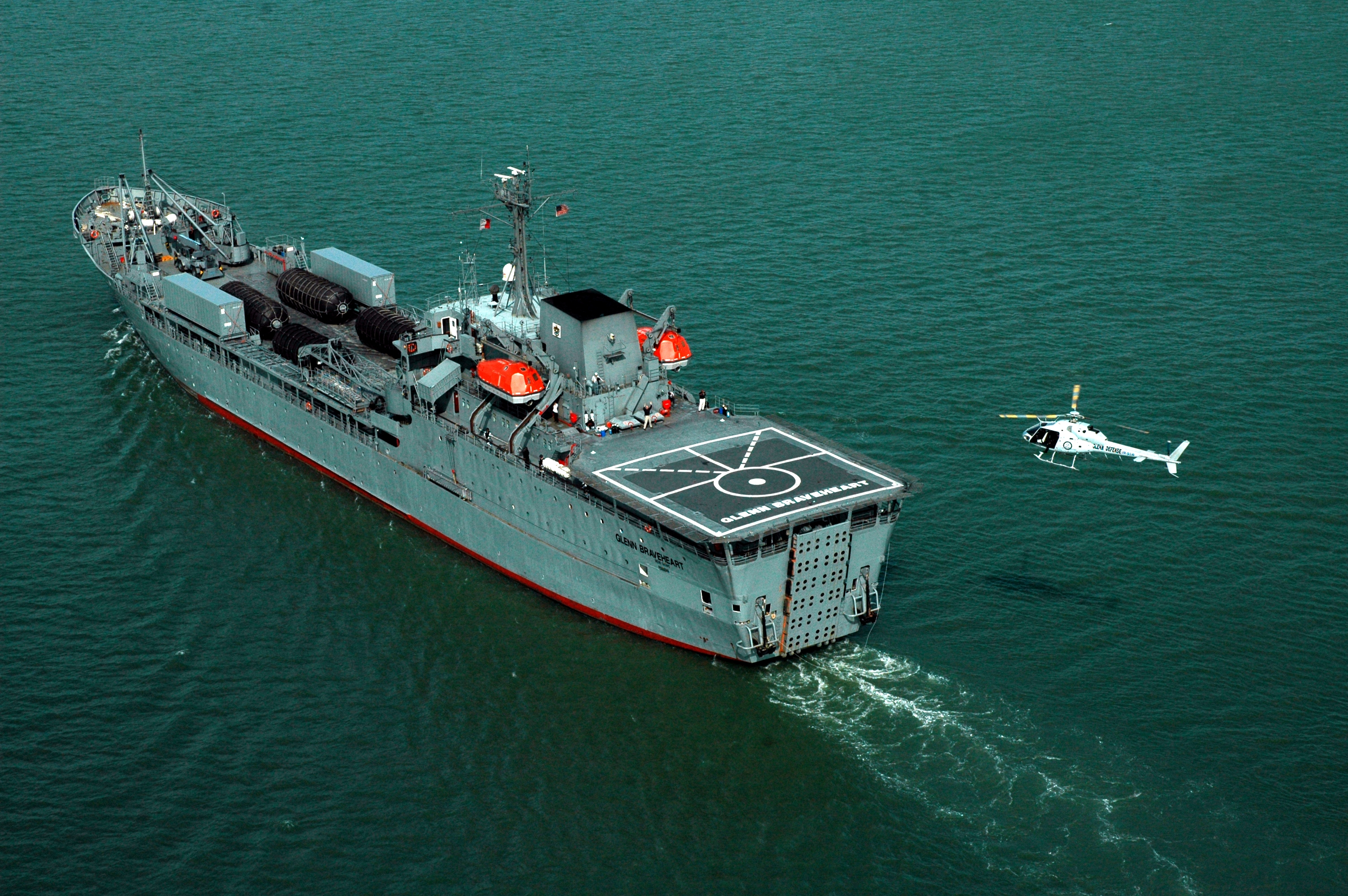 Glenn Braveheart. Flagship of Glenn Defense Marine fleet of marine logistic vessels.